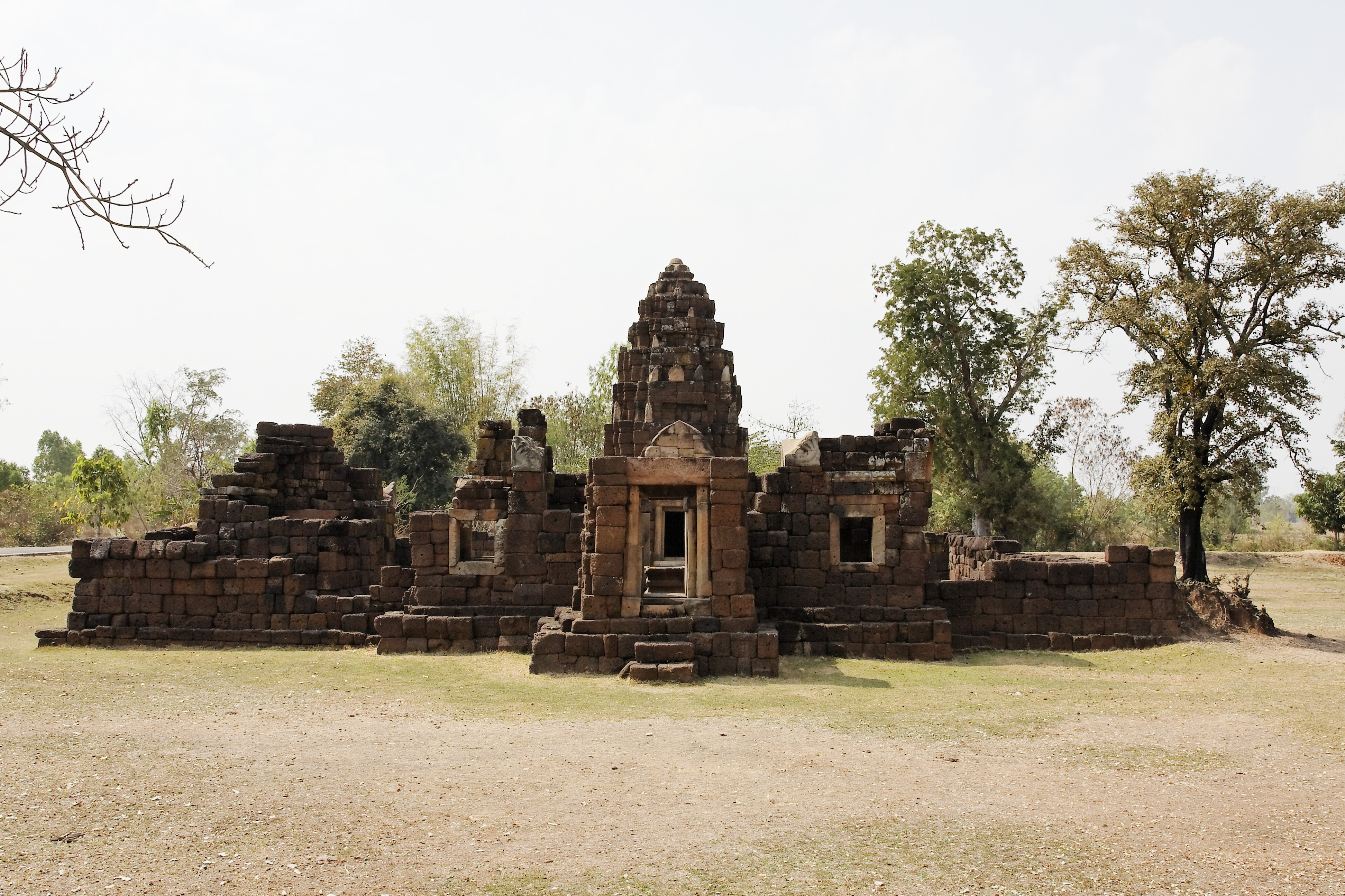 Kuti Reussi #2 (Ban Khok Mueang), Thailand